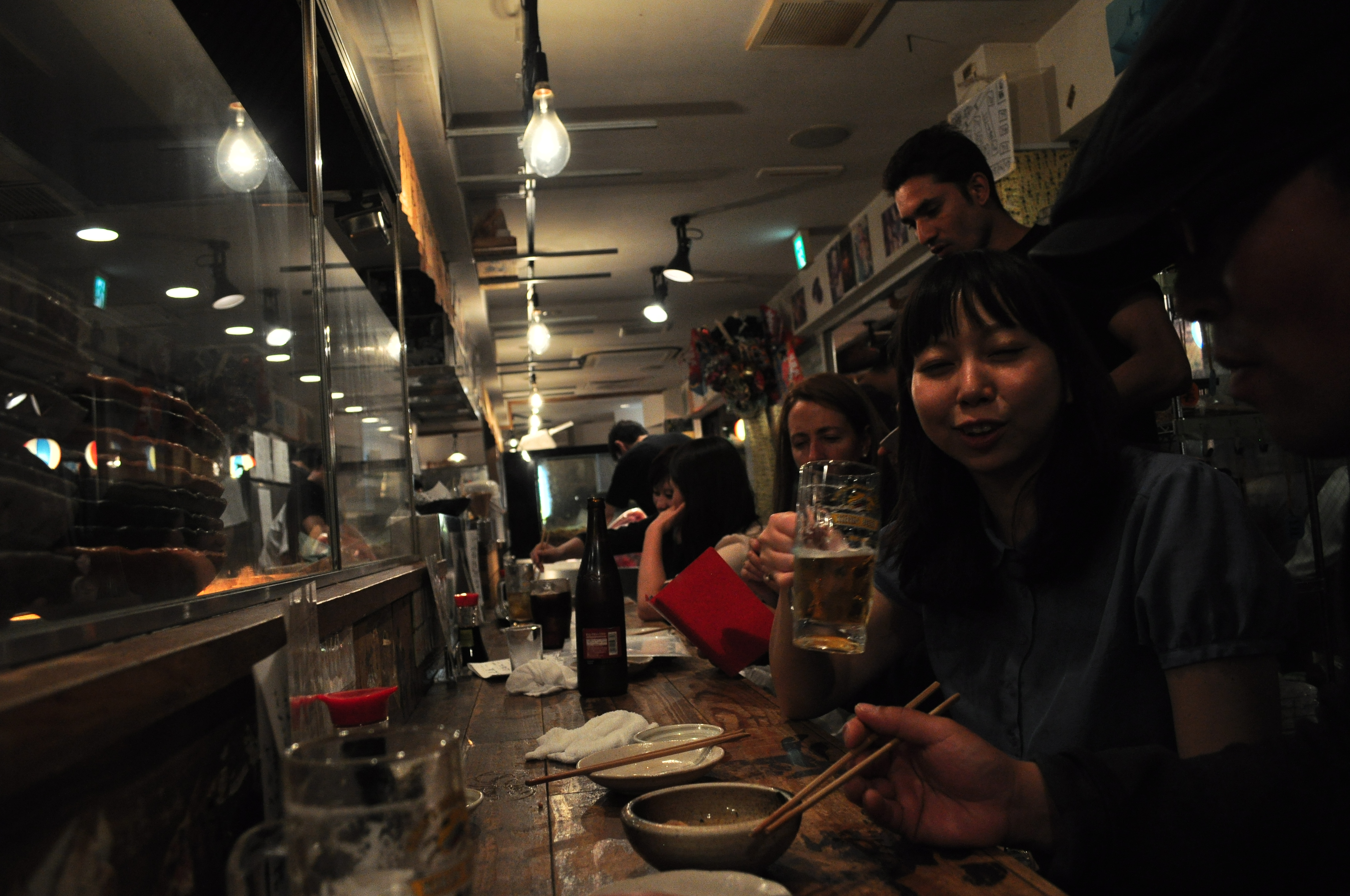 Uoshin Nogizaka (izakaya) Roppongi, Tokyo, Japan.